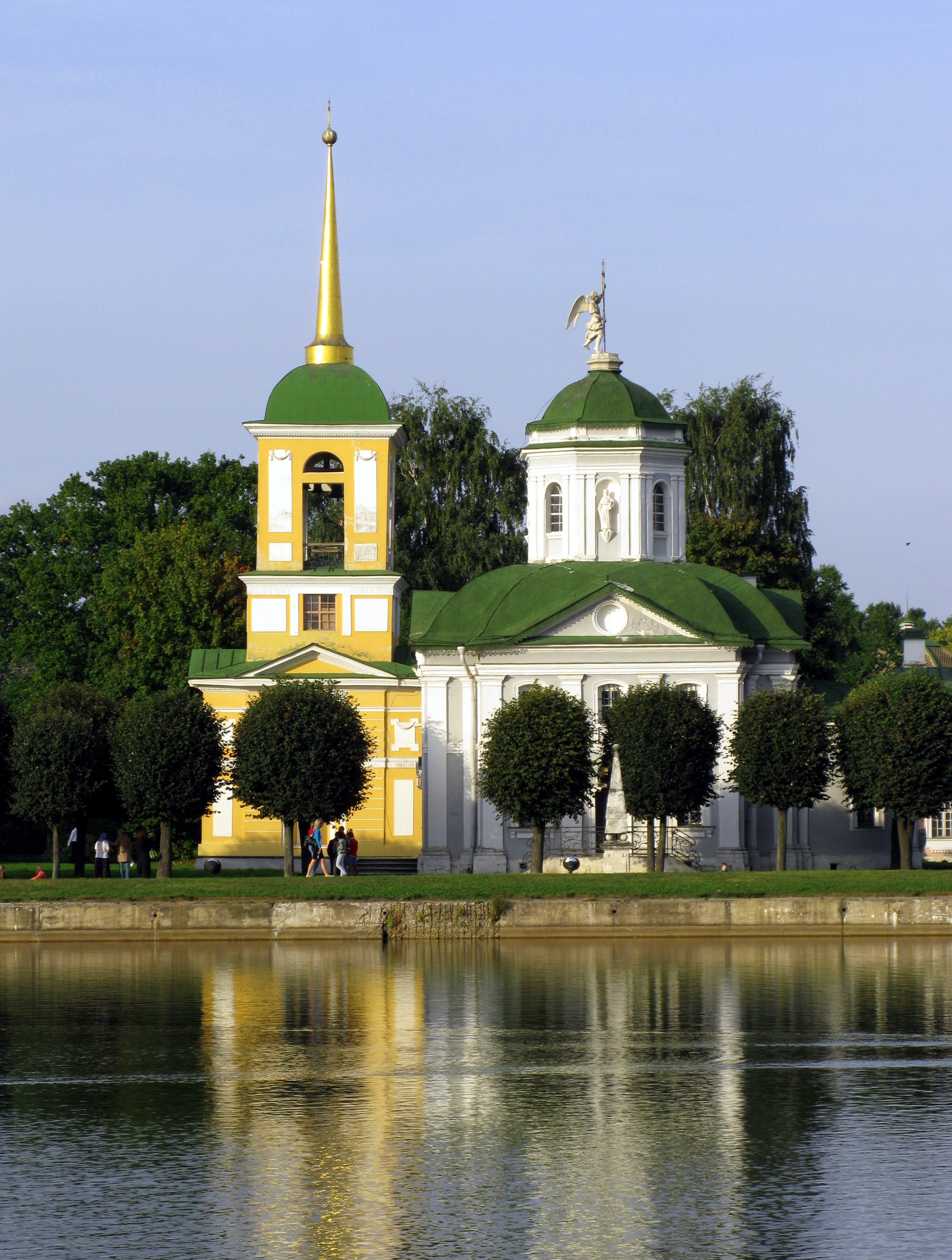 Church of the Merciful Saviour in Kuskovo